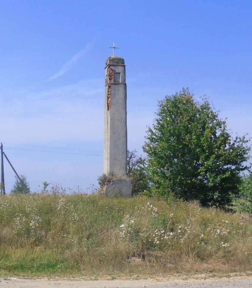 Monument of the victims of the Polish–Ottoman War (1672–76) near the village Rohizno.